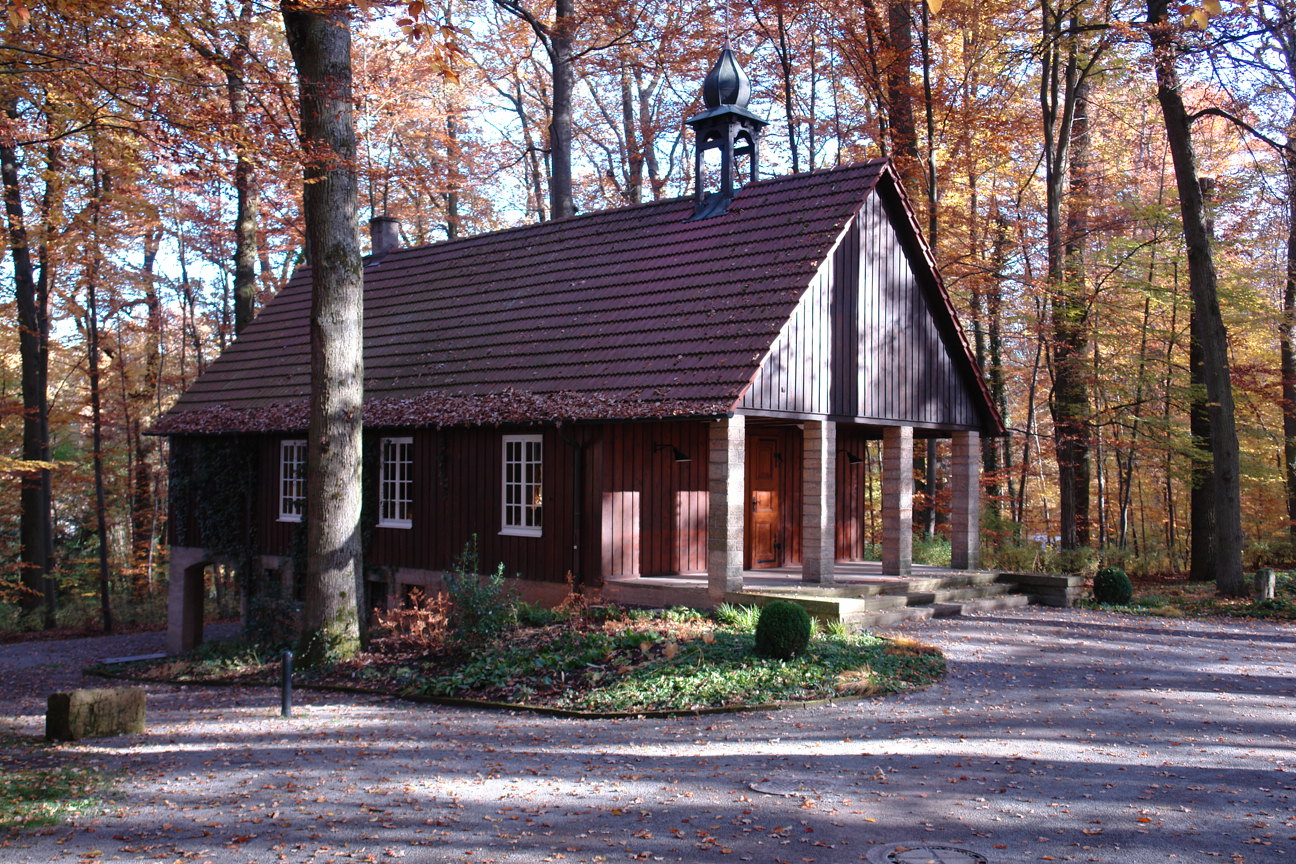 Funeral chapel in the forrest of the Bergfriedhof cemetry in Tübingen, Germany